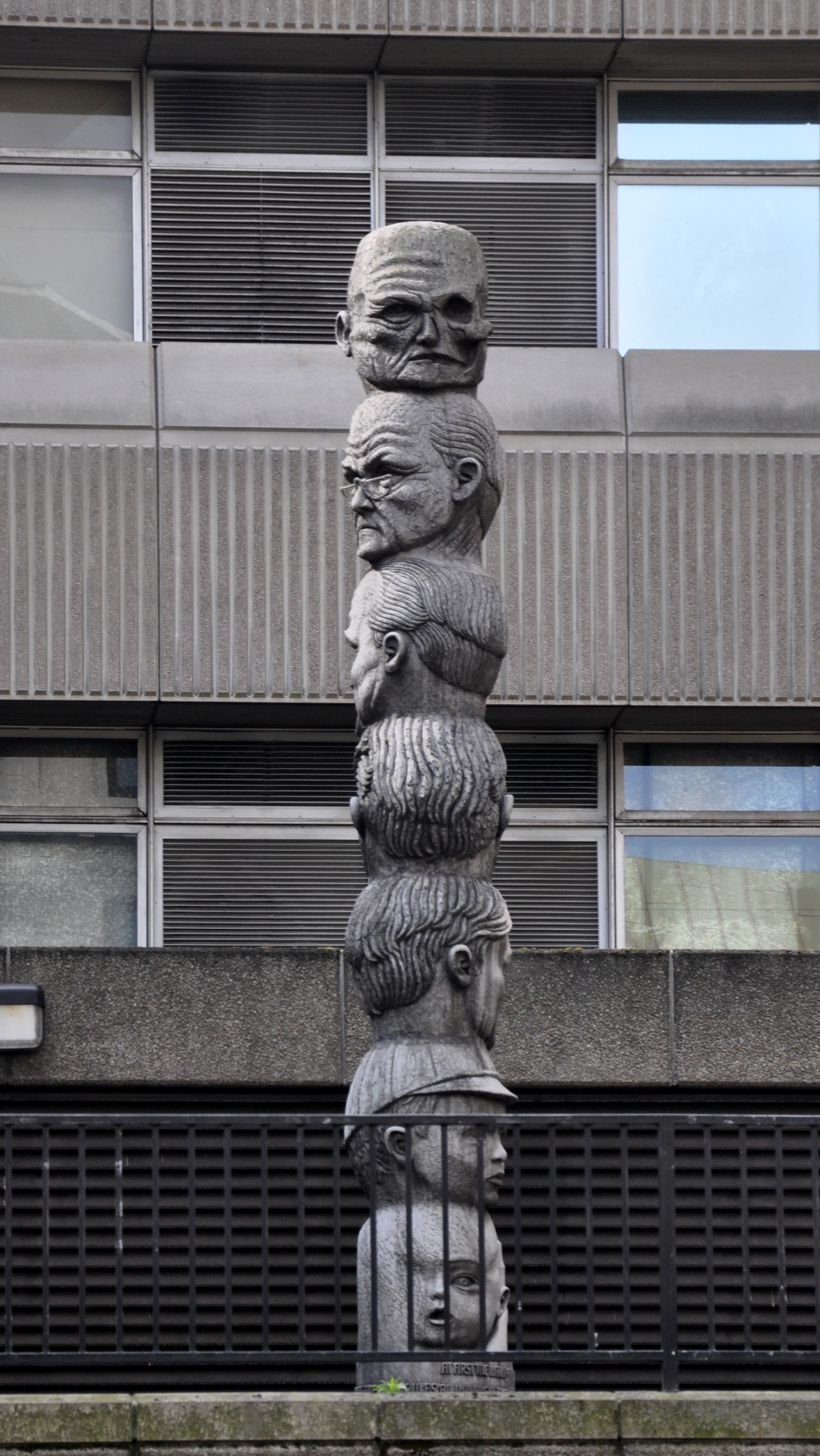 London, Baynard House (Queen Victoria Street) Sculpture "Seven Ages Of Man" by Richard Kindersley, 1980